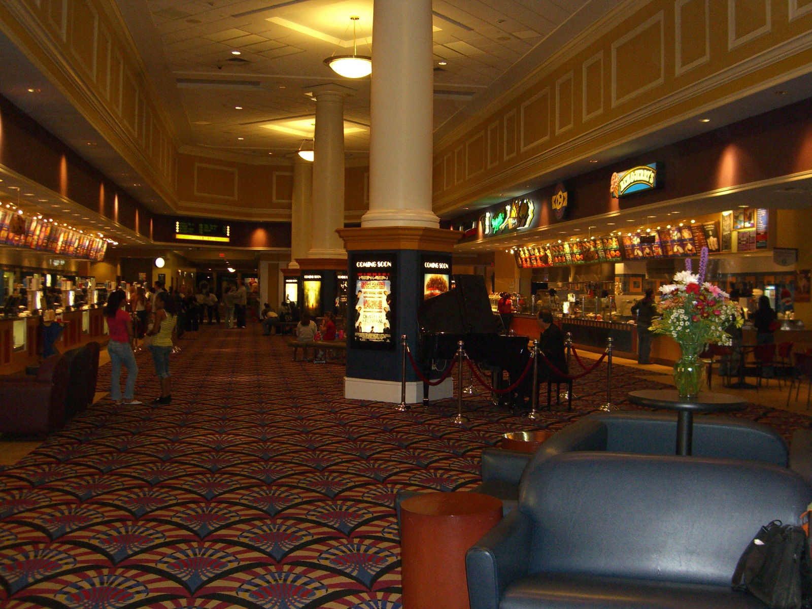 The lobby of National Amusements' City Center 15 movie theater in White Plains, New York, as seen on October 5, 2007. This photo was created by Luigi Novi. It is not in the public domain, and use of this file outside of the licensing terms is a copyright violation.